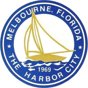 Seal of Melbourne, Florida